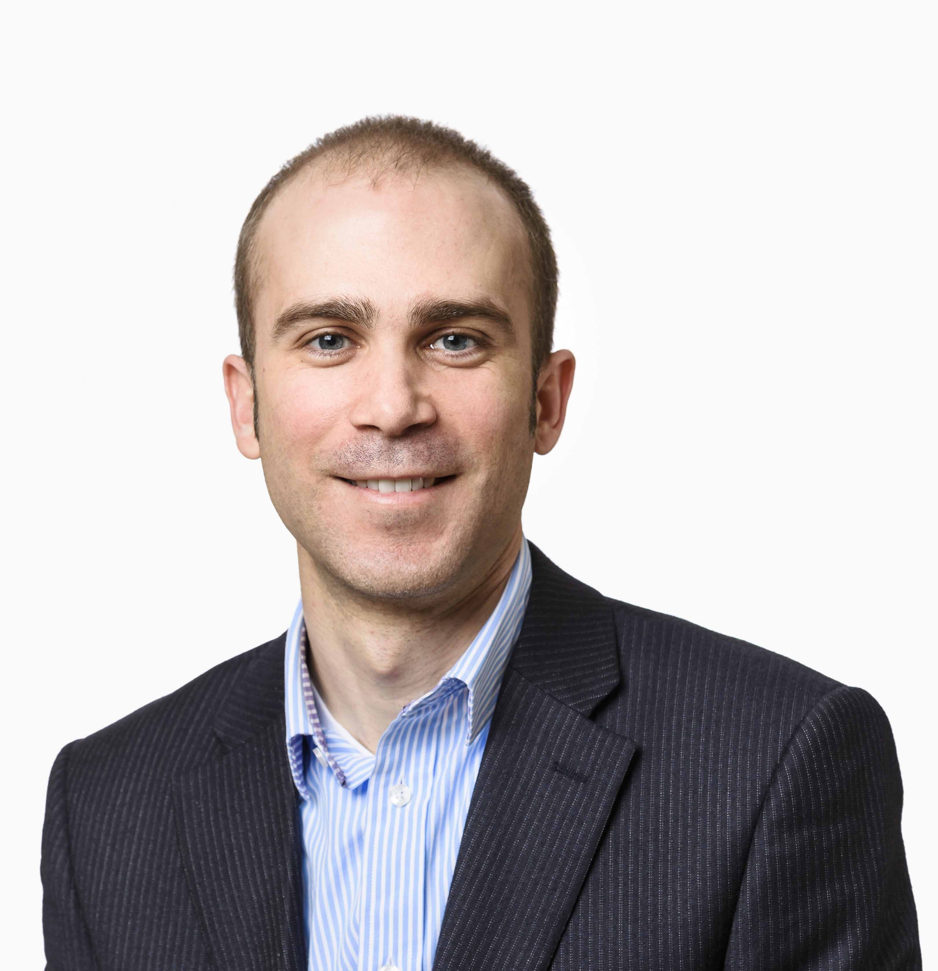 Rob Klose